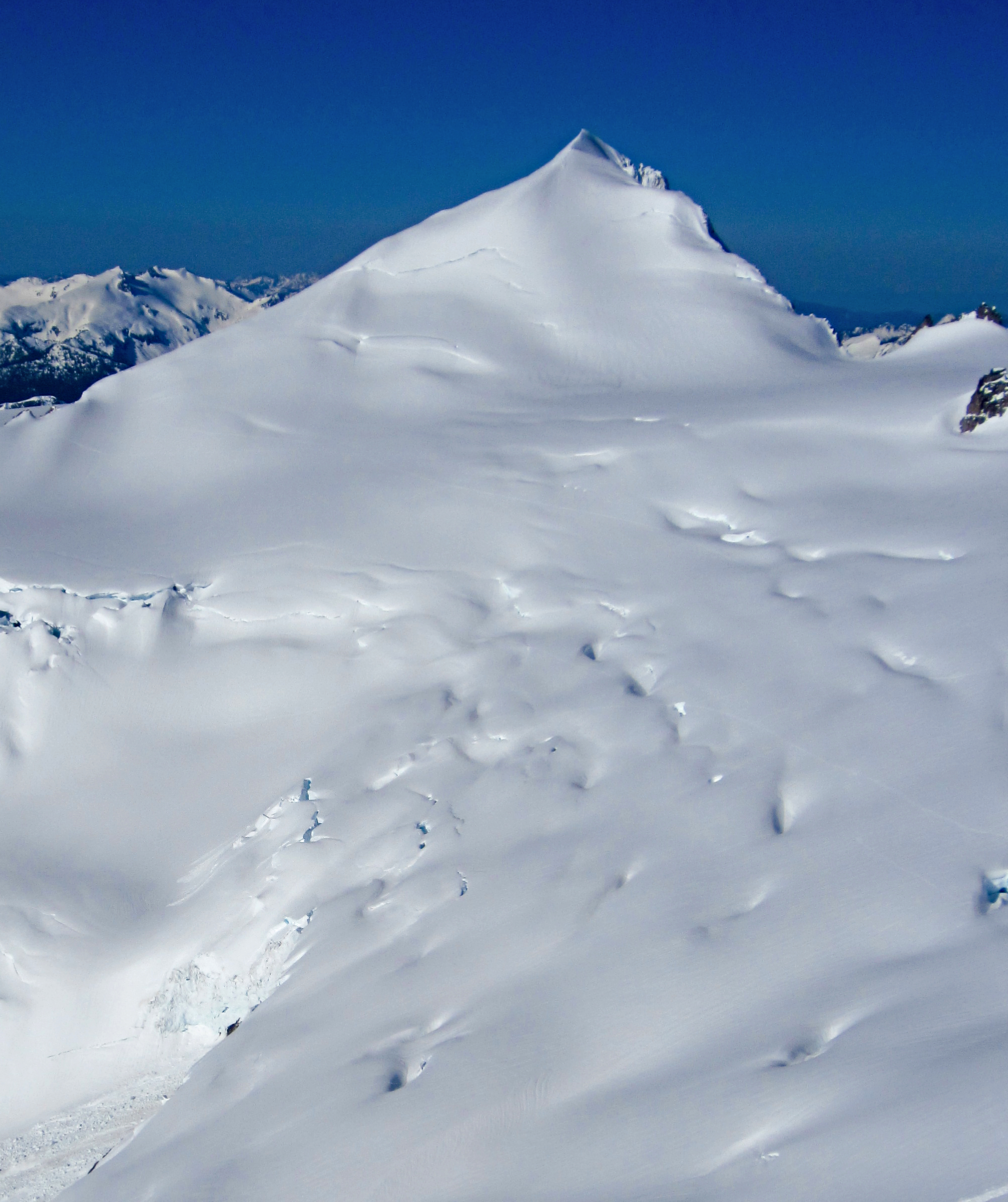 Ascending Klawatti's South. Eldorado Peak and Inspiration Glacier seen from Klawatti Peak. North Cascades National Park